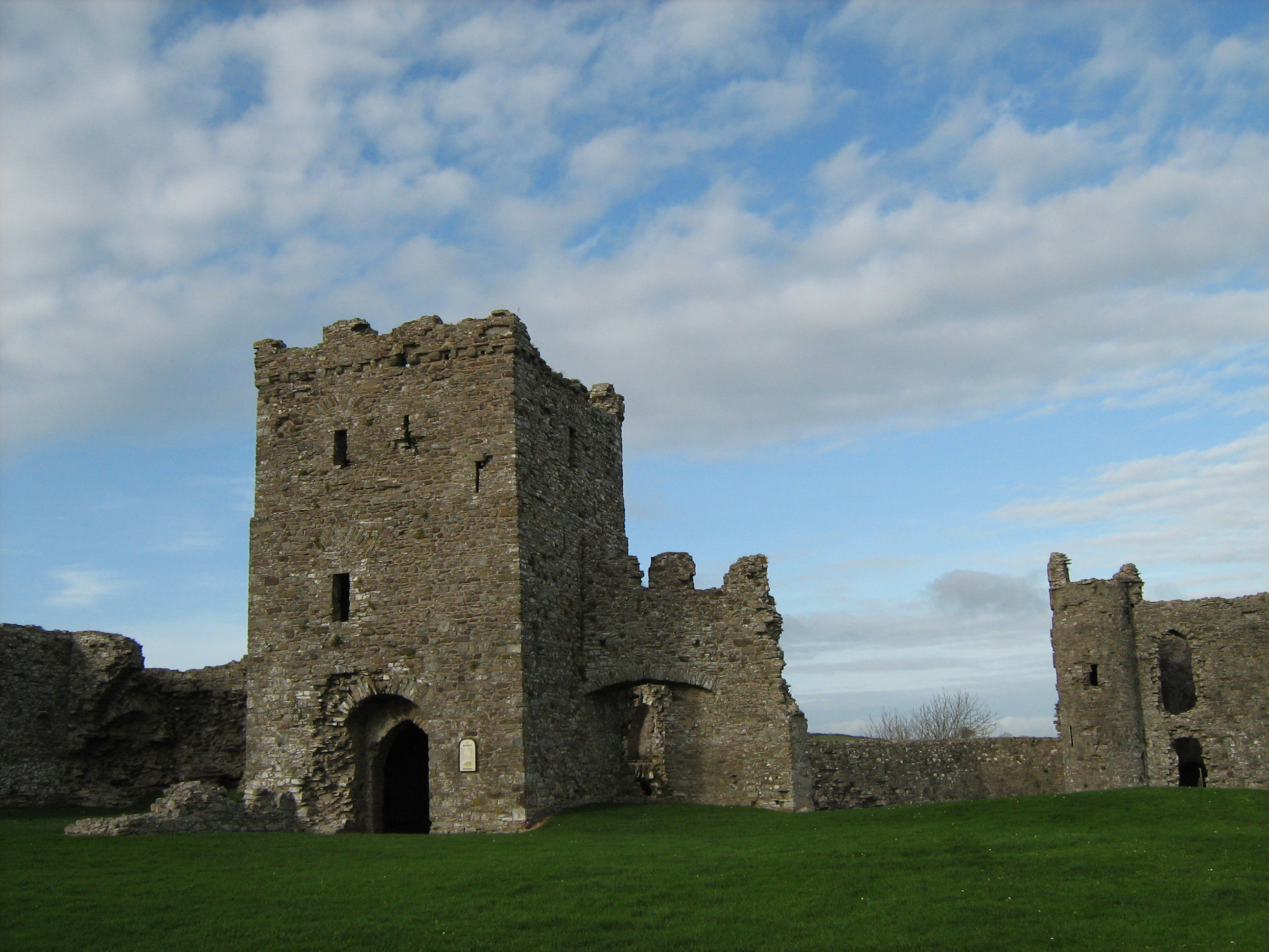 Llansteffan Castle on the outskirts of Llansteffan.